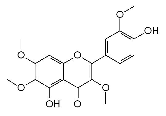 chemical structure of chrysosplenetin